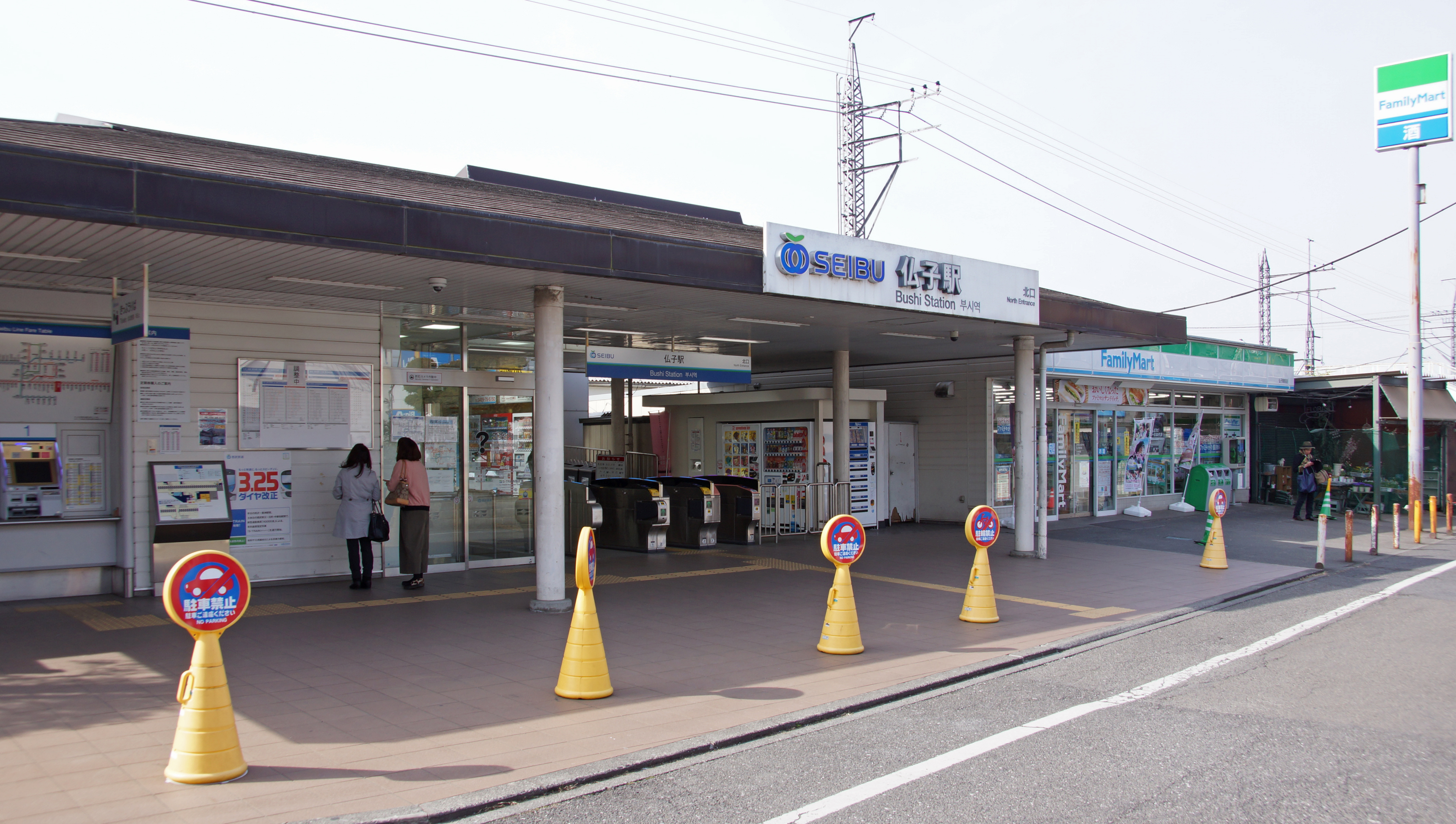 The north (main) entrance to Bushi Station on the Seibu Ikebukuro Line in Saitama Prefecture, Japan